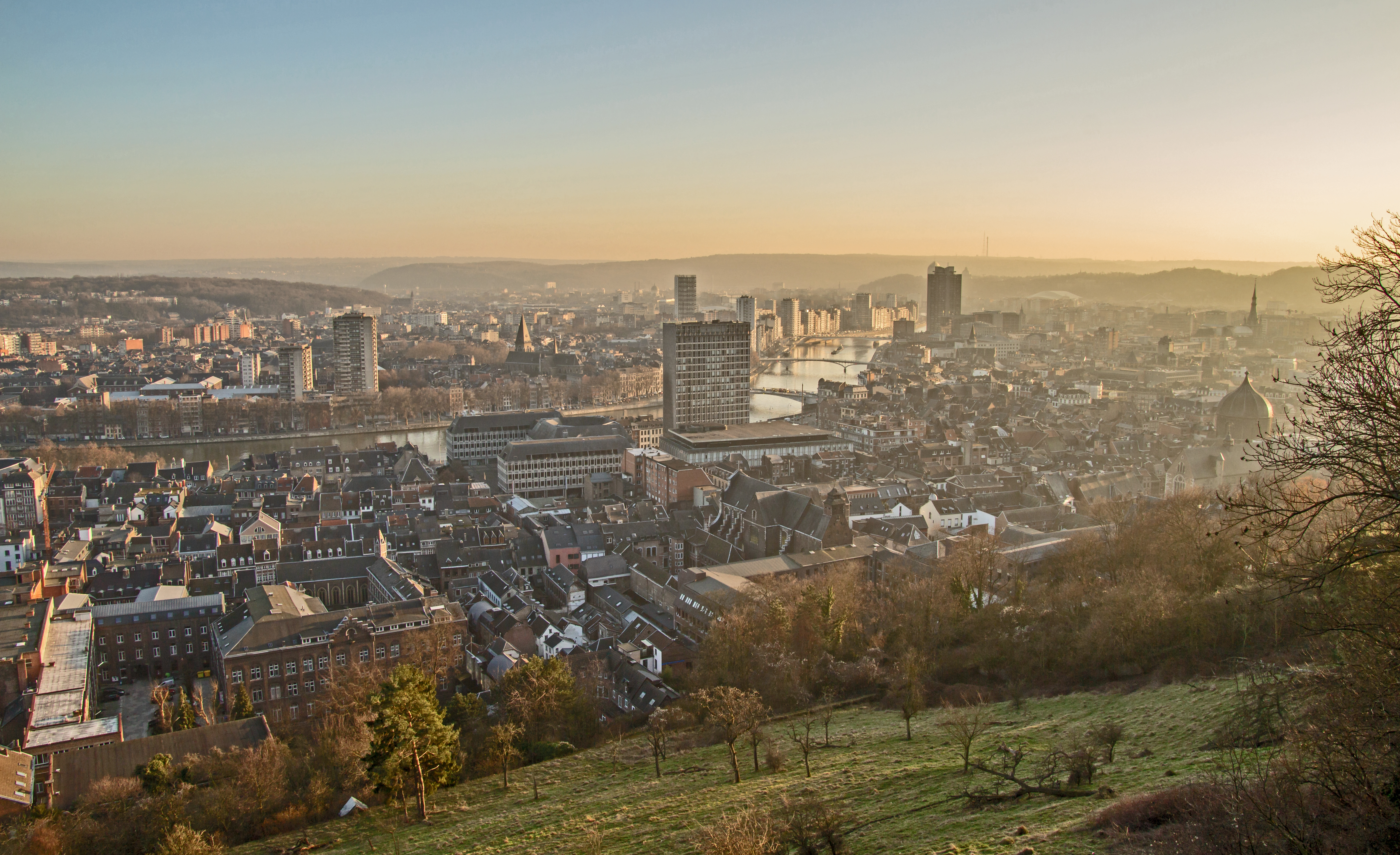 panoramic view of Liége (Luik, Lüttich) with city and river Meuse - Liége, Wallonia, Begium